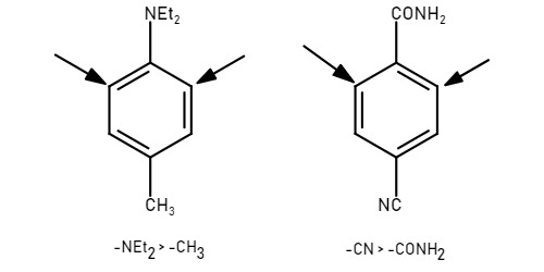 If two group have the same directing effect, it depends on the stronger one.